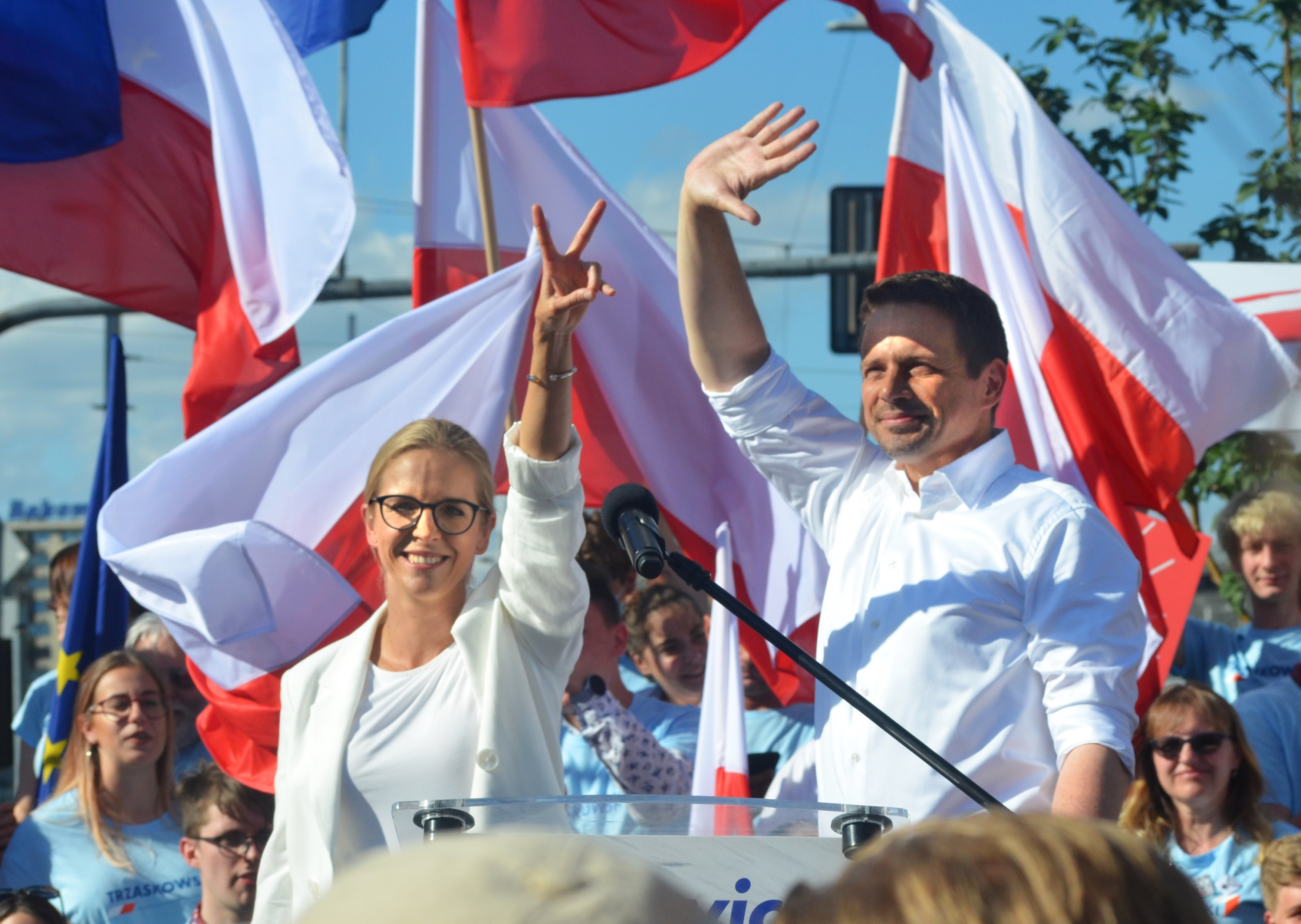 Rafał Trzaskowski, Katowice